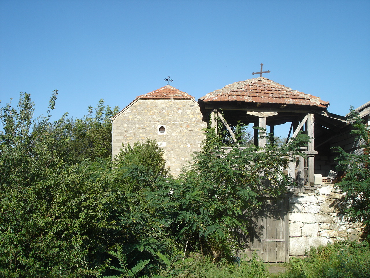 The church in village of Krushevica in Mariovo region, Macedonia